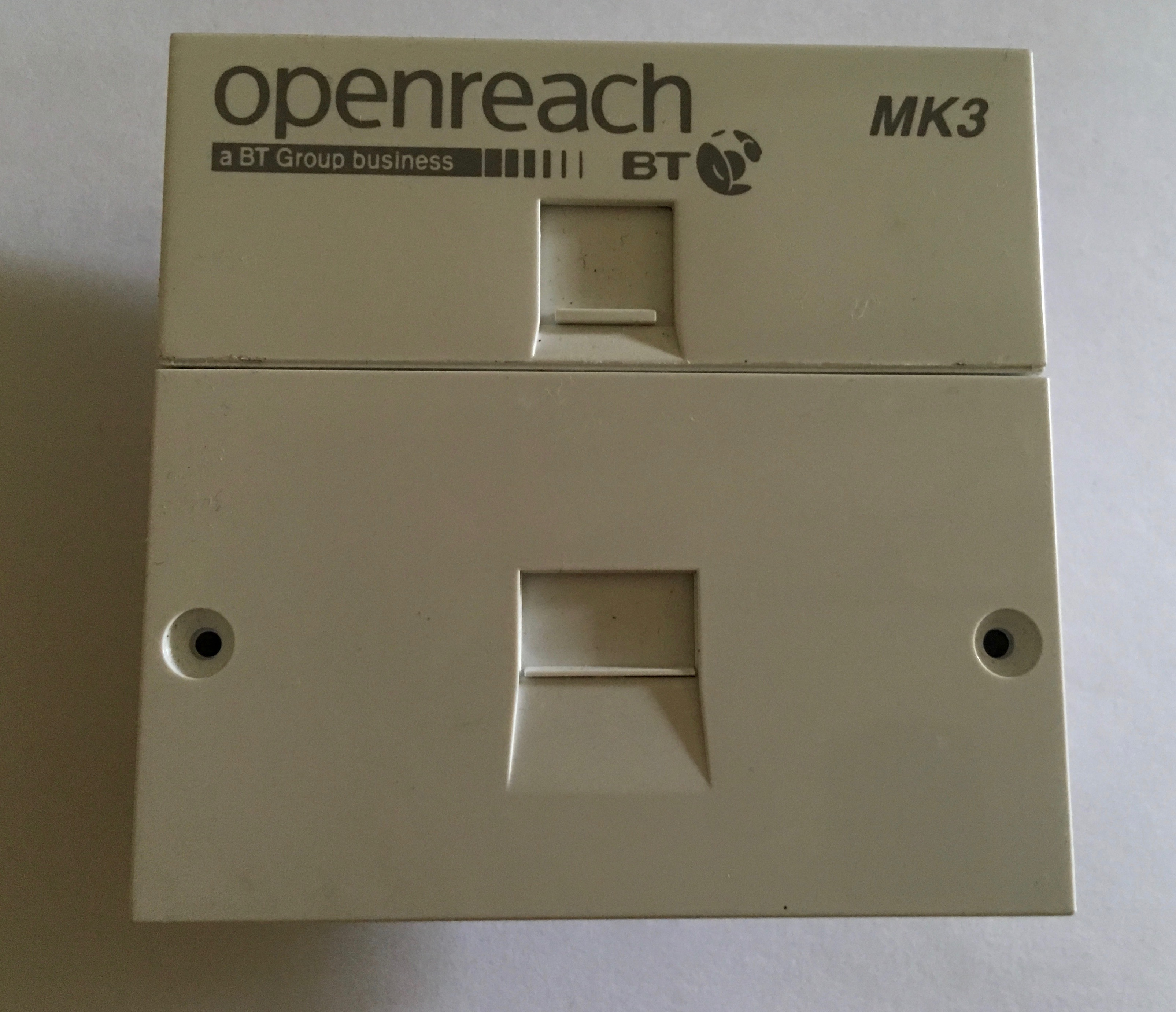 BT Infinity vDSL Faceplate attached to a BT NTE5